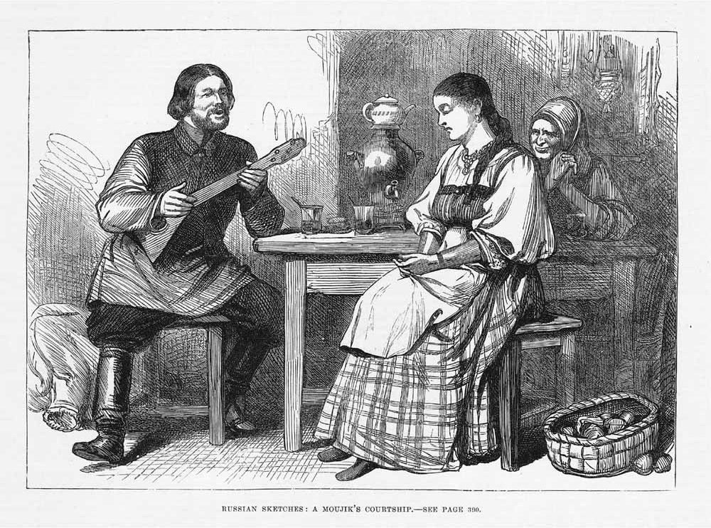 Courtship In Russia, 1880 Canvas Print